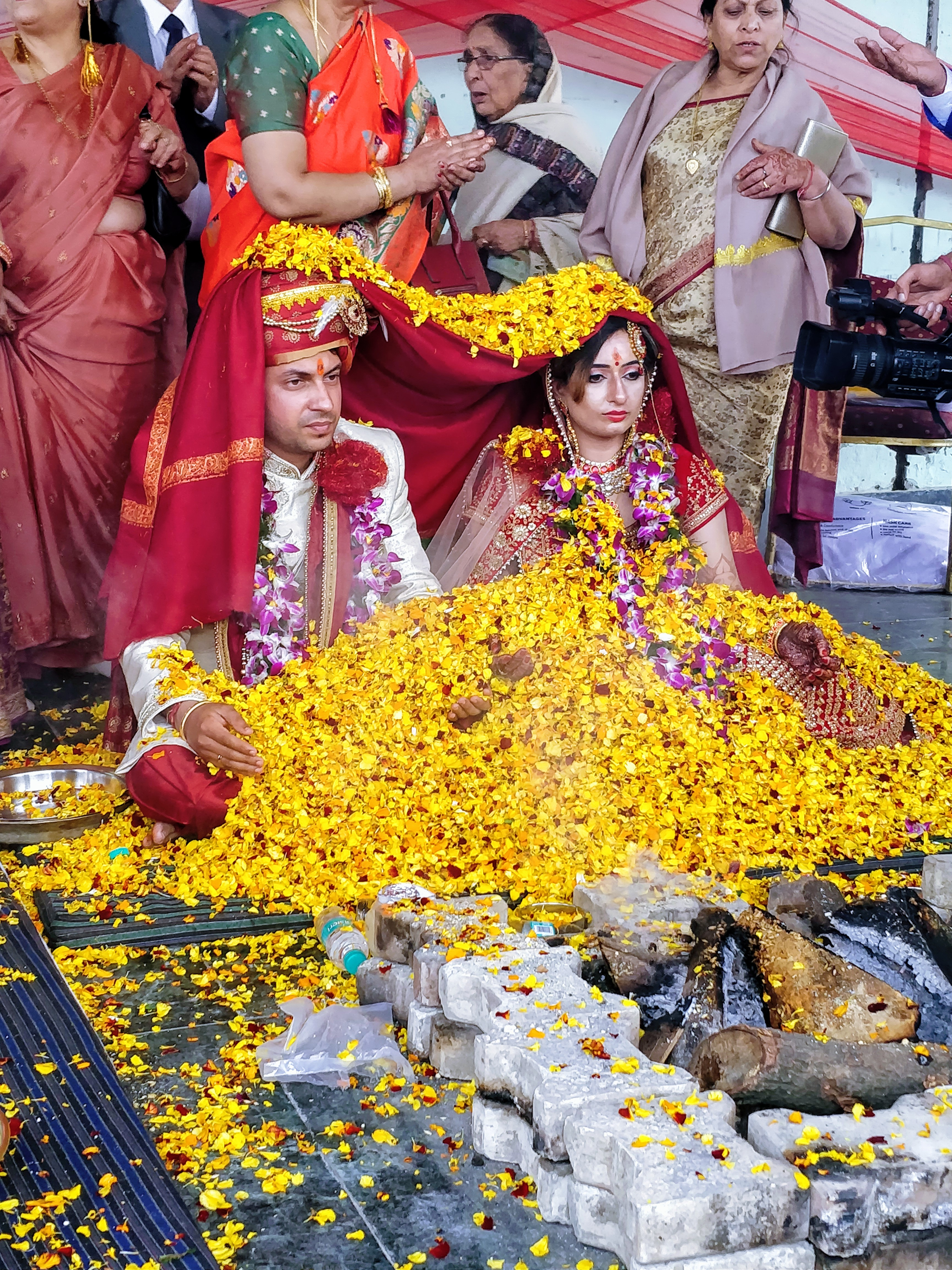 Bride and groom getting married through traditional Kashmiri Pandit marriage rituals in Jammu.